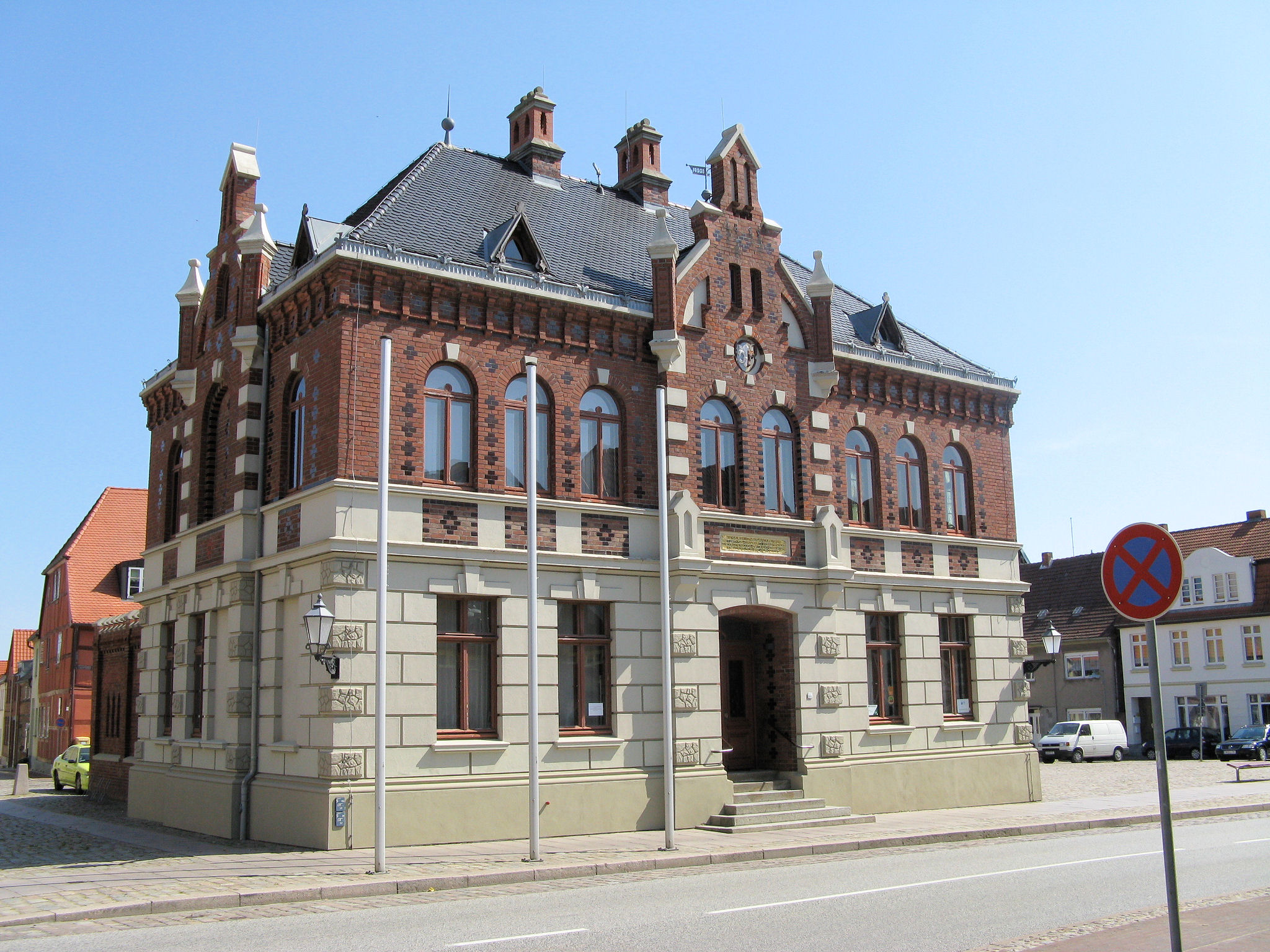 Town hall in Gnoien, disctrict Güstrow, Mecklenburg-Vorpommern, Germany